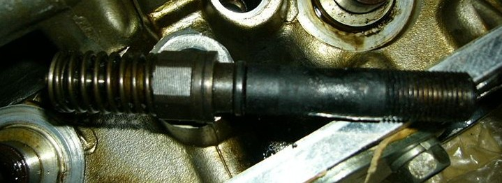 MCA-JET valve of Mitsubishi Astron engine.